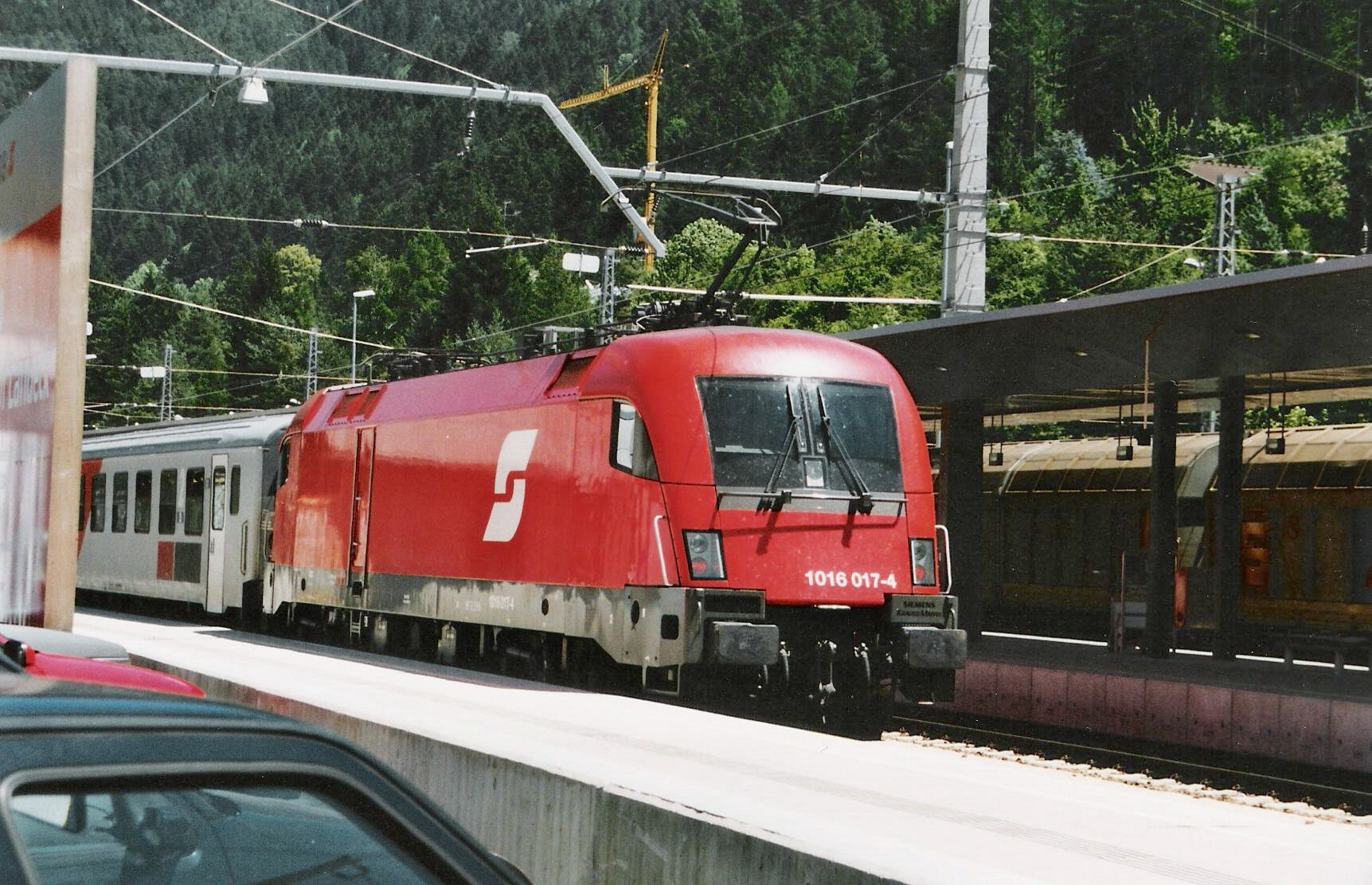 ÖBB 1016 017-4 with a push-pull-train in Landeck, Austria